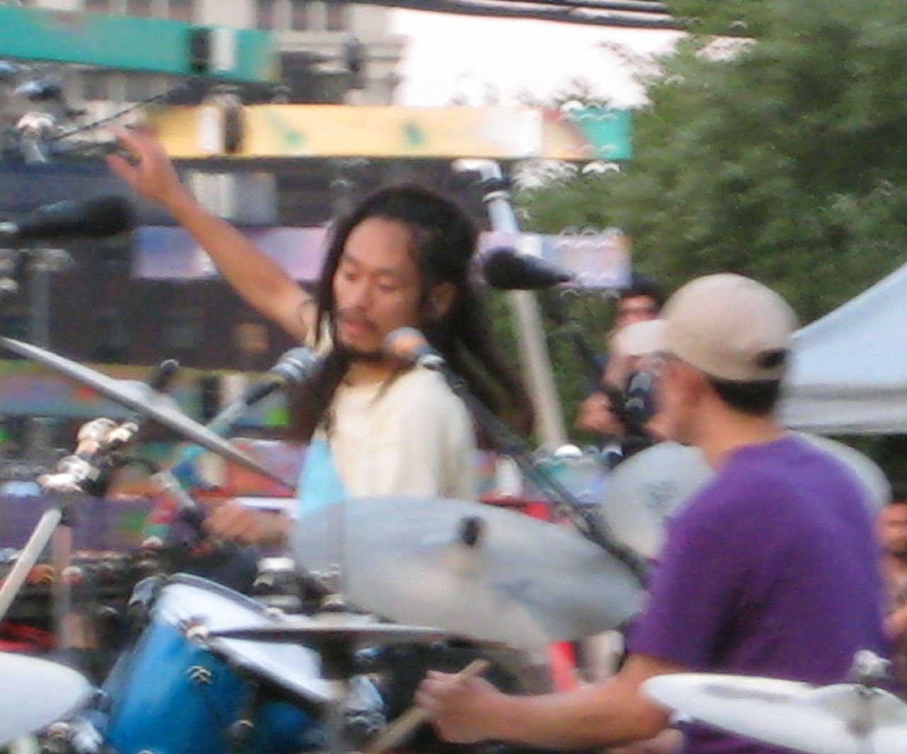 Boredoms, live in 2007